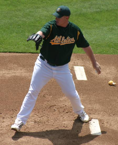 Photo by Justin Lafferty 17:01, 23 August 2006 . . Jlaff . . 450×553 (44 KB)